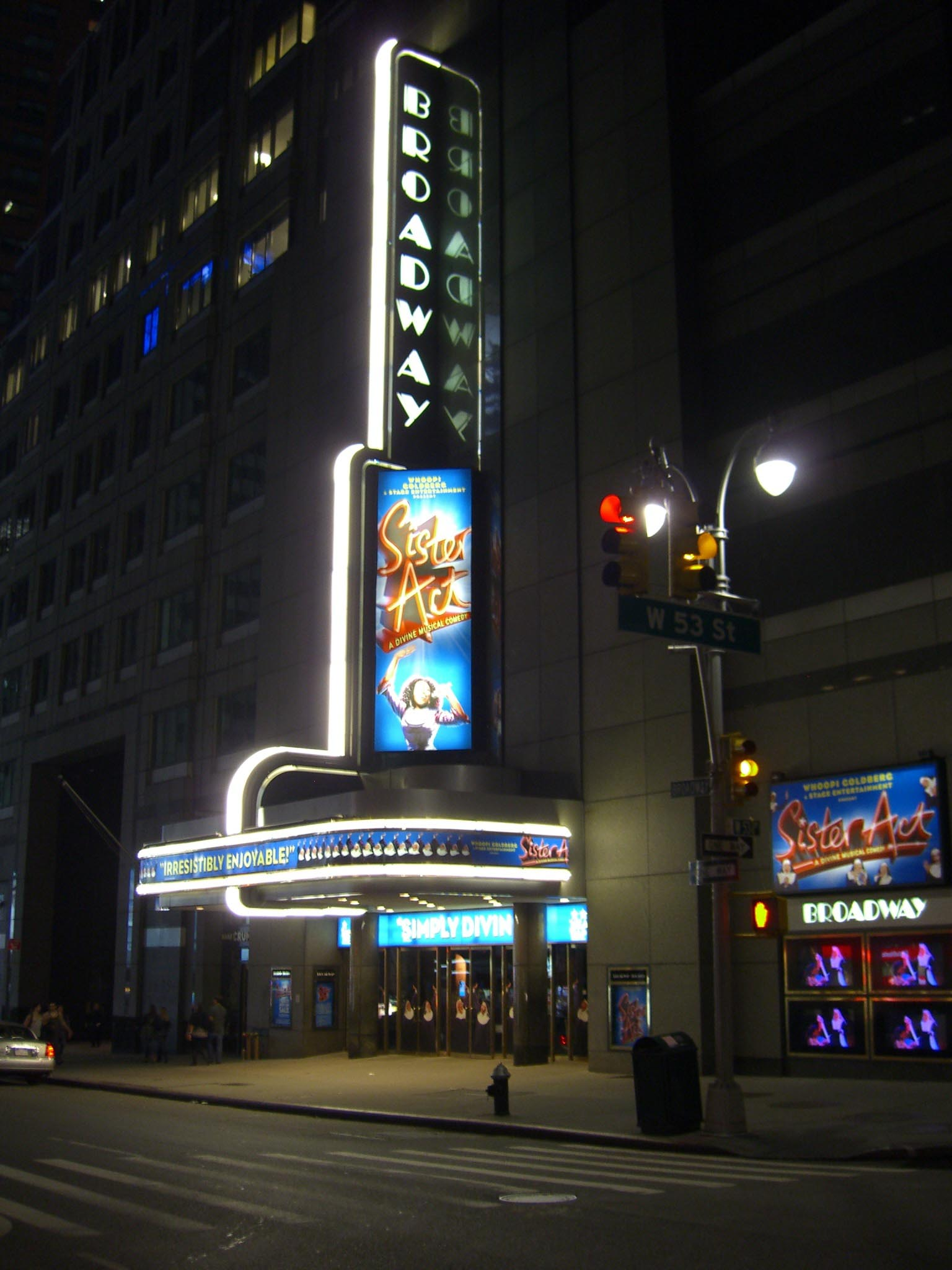 The Broadway Theatre in Times Square, Manhattan, photographed April 28, 2011. This photo was created by Luigi Novi. It is not in the public domain, and use of this file outside of the licensing terms is a copyright violation.